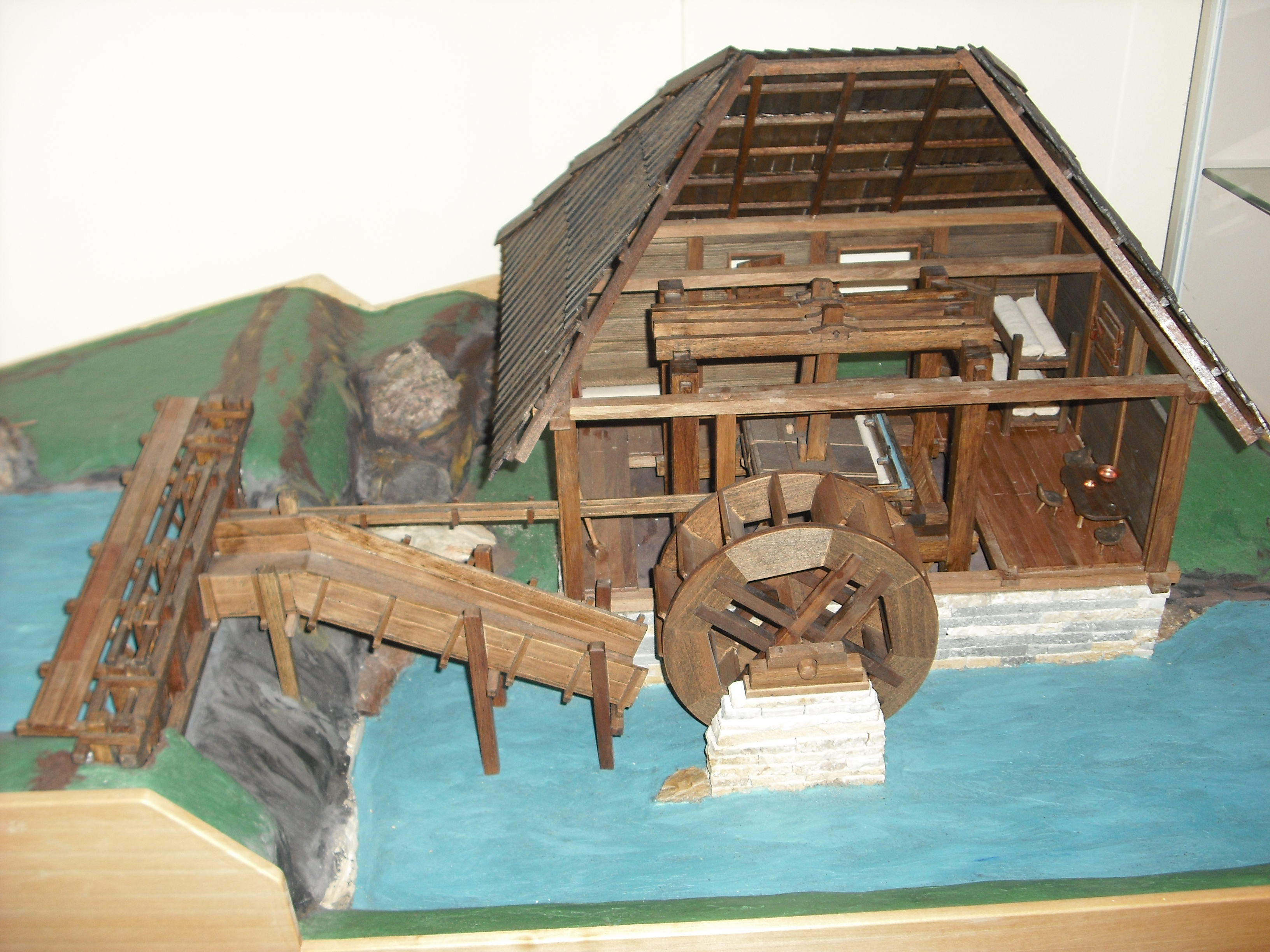 Valjarica (Valjavica) wooden building, with a mechanism to drive the water rolling and making woolen cloth. by folk legend Valjevo was named after valjarica, that exist in larger numbers along Kolubara and Gradac rivers.